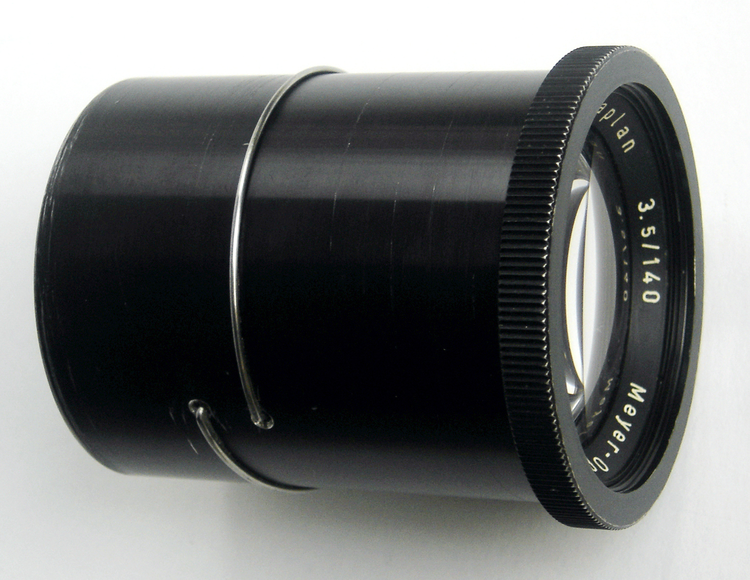 The Diaplan is a projection objective of German optics manufacturer Meyer-Optik, Goerlitz. This specimen as an aperture of 1:3.5 and the focal length is given as 140 mm.